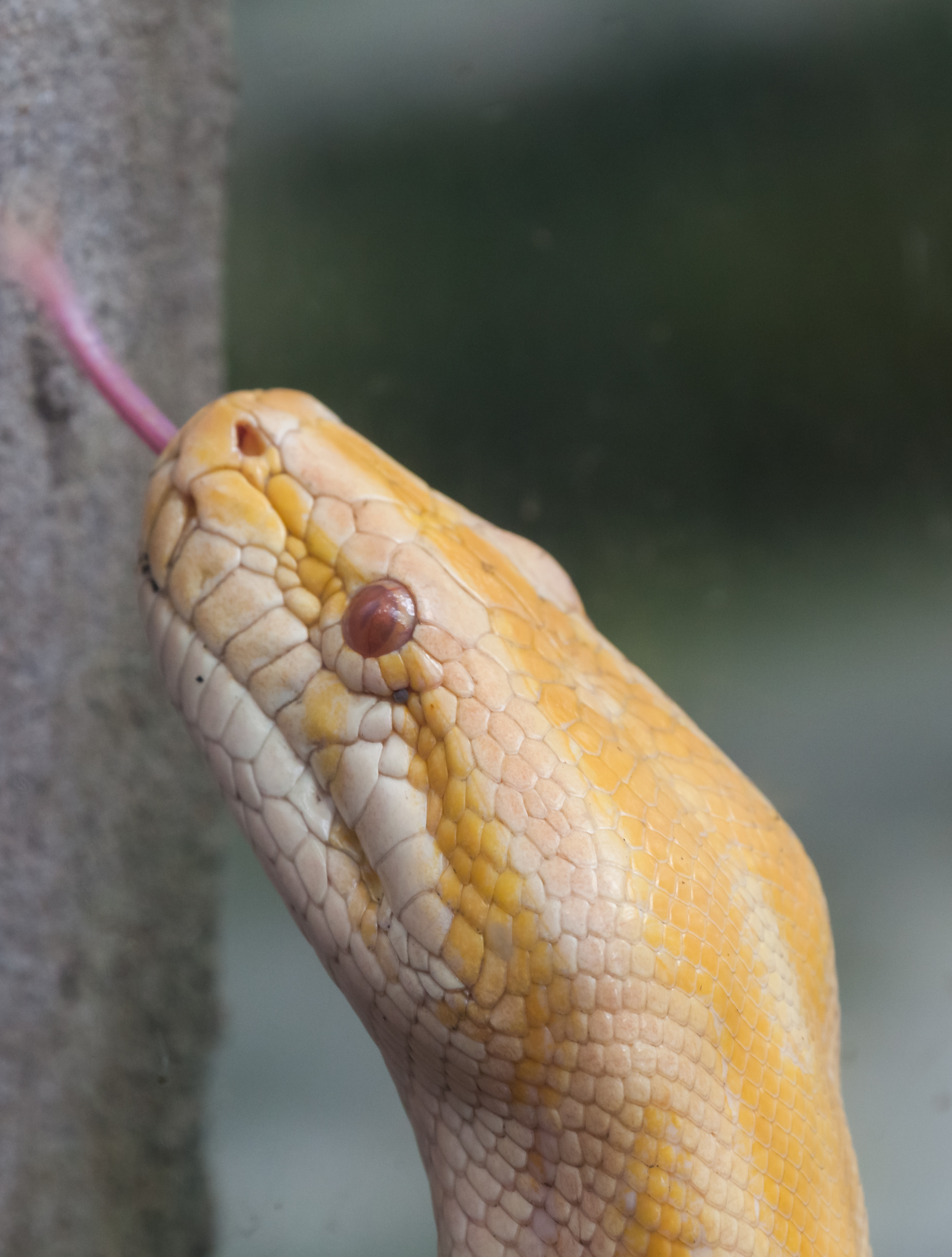 Indian python albino (Python molurus), Ho Chi Minh City Zoo, Vietnam